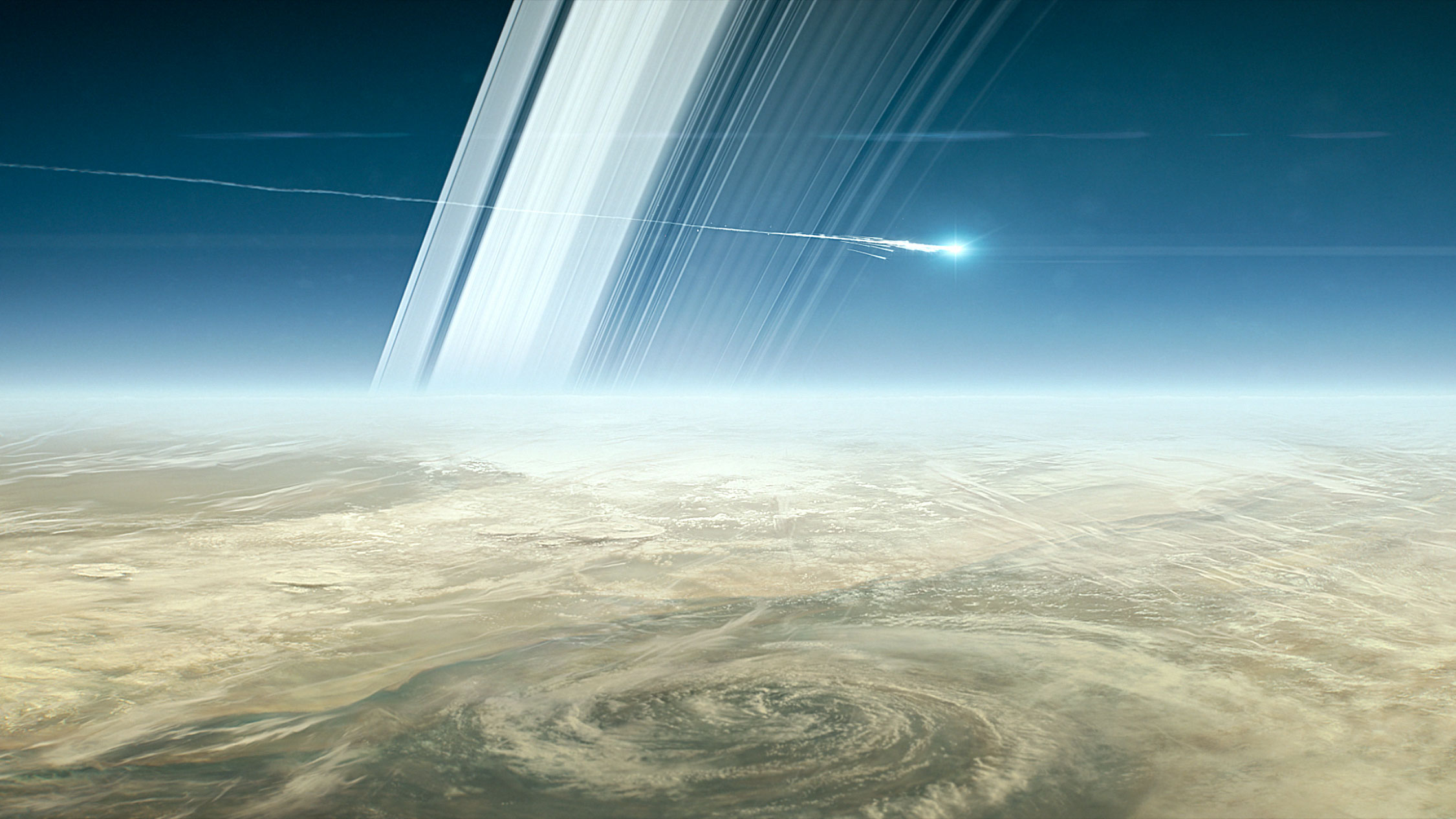 CGI Representation of Cassini Approaching Saturn's Atmosphere